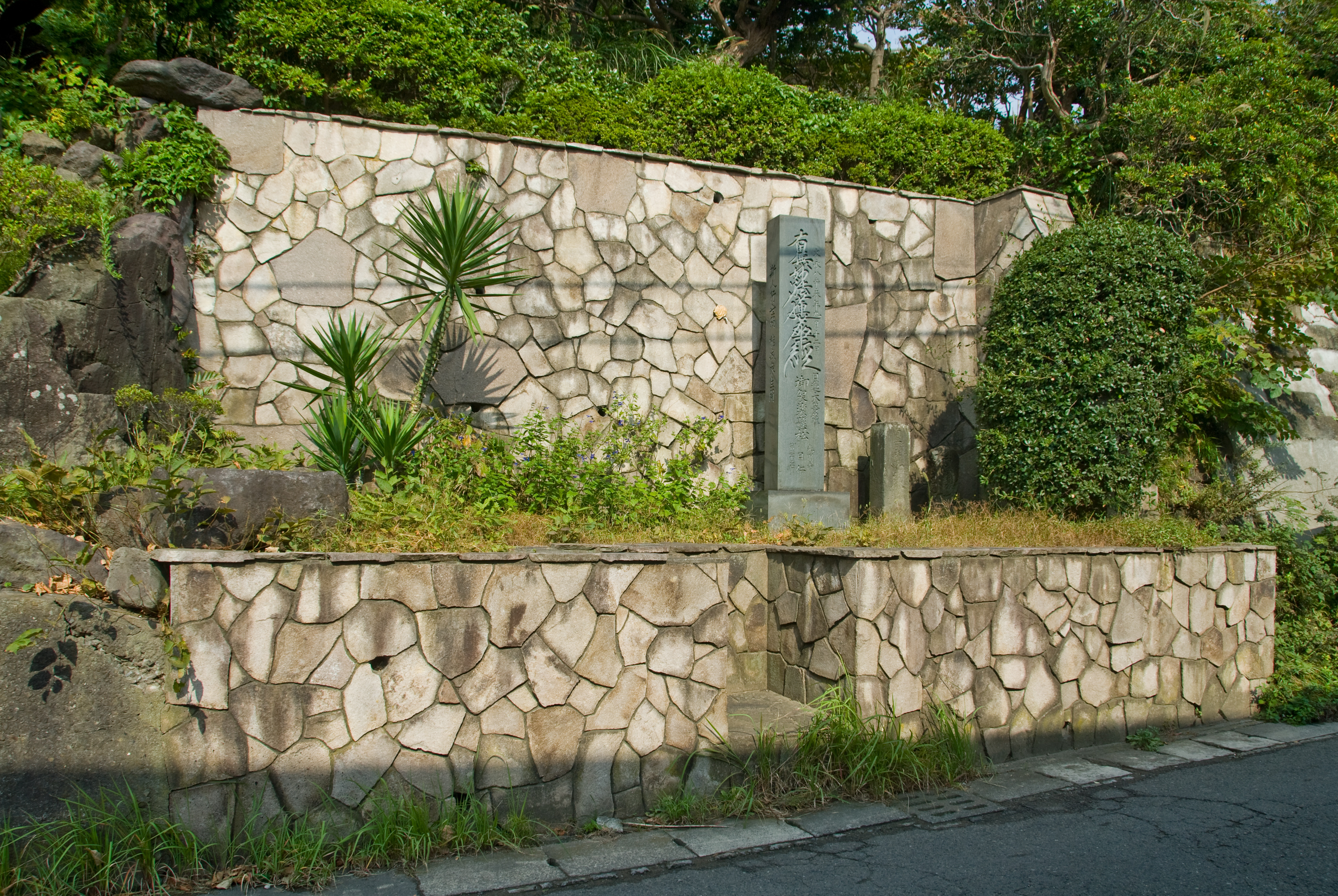 The so-called Template:Nihongo was a pine tree on the road to Katase from which Nichiren hanged his kesa (a Buddhist stole) while on his way to Ryūkō-ji so that it wouldn't be soiled by his blood during his execution (which didn't happen).